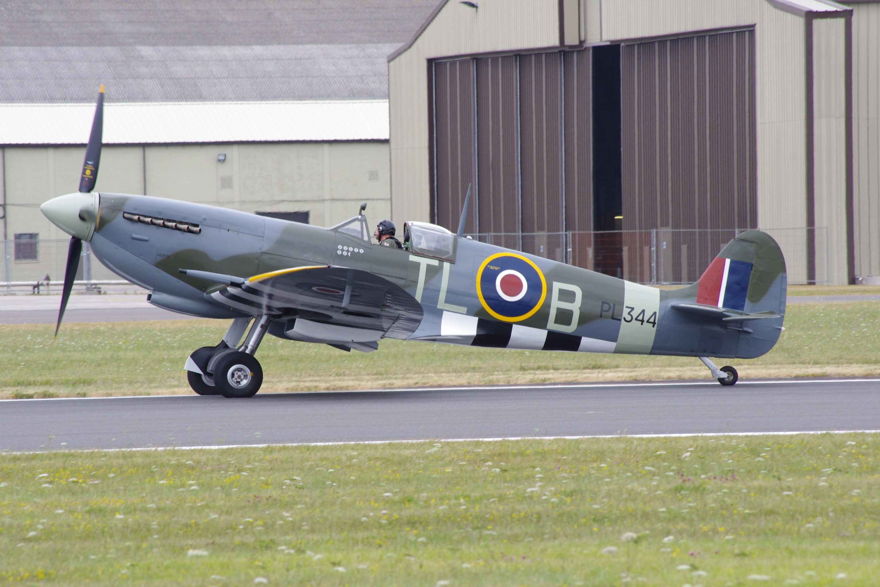 Supermarine Spitfire Mk IX PL344, at the Royal International Air Tattoo at RAF Fairford.